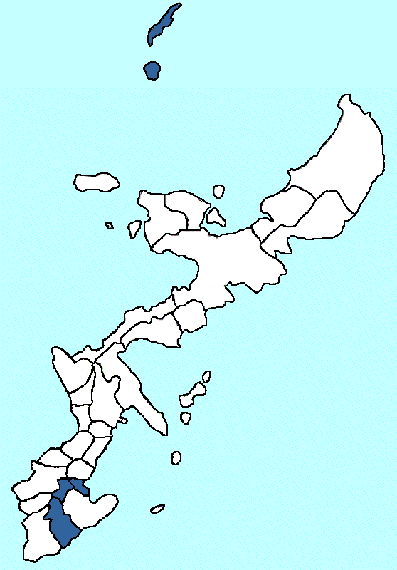 The location of Shimajiri District in Okinawa.